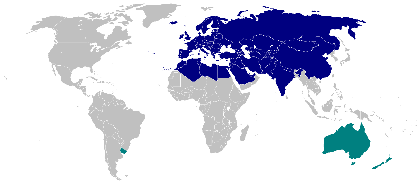 Distribution map of the Goldfinch. Includes the whole of all countries where recorded, regardless of actual status. Countries with native populations are marked in navy blue and countries with established human-introduced populations marked in teal.